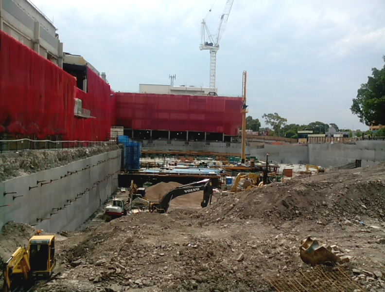 Building site, Miranda Westfield's